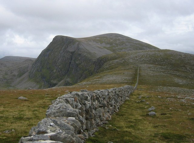 Beinn Dearg. Looking SE along Diollaird a' Mhill Bhric towards Beinn Dearg